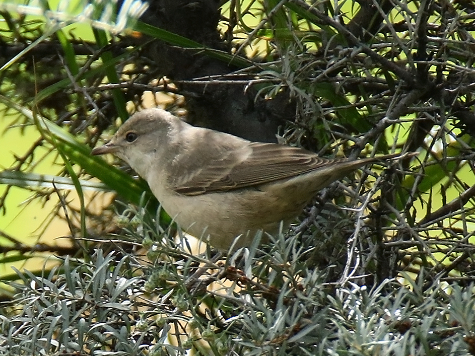 Barred Warbler (Sylvia nisoria) captured at Aliabad, Hunza, Gilgit-Baltistan, Pakistan with Canon EOS 7D Mark II